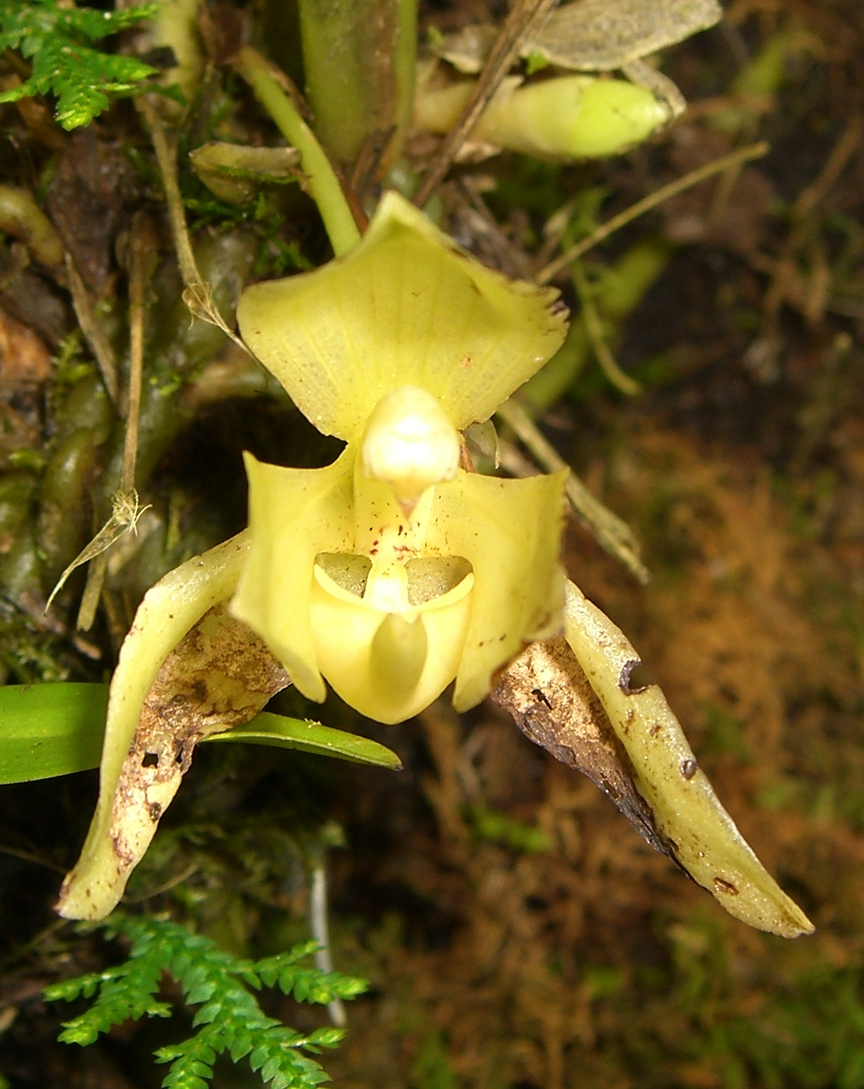 Please report references to .